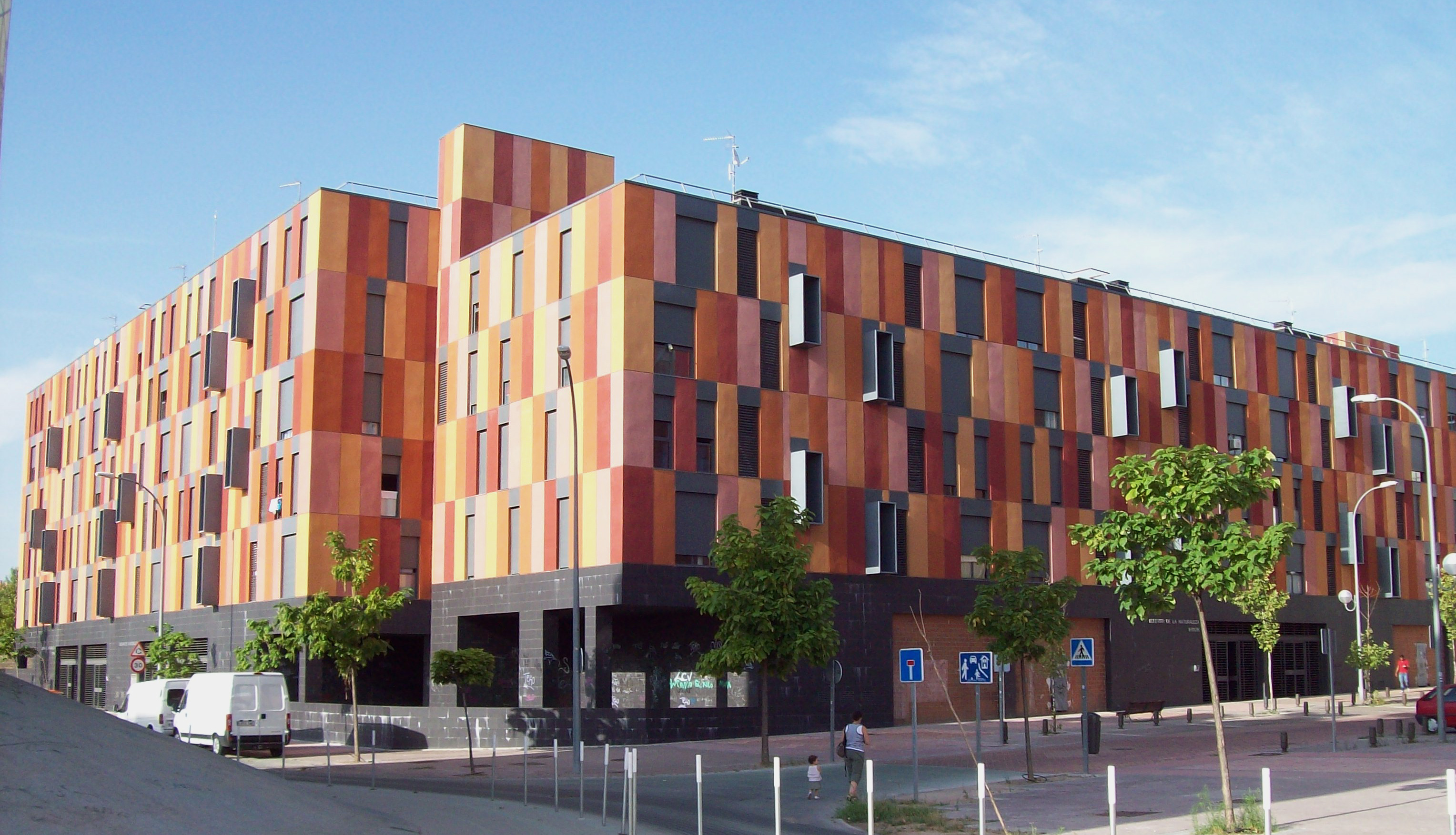 Exterior view of Vallecas 2 building in Madrid (Spain).